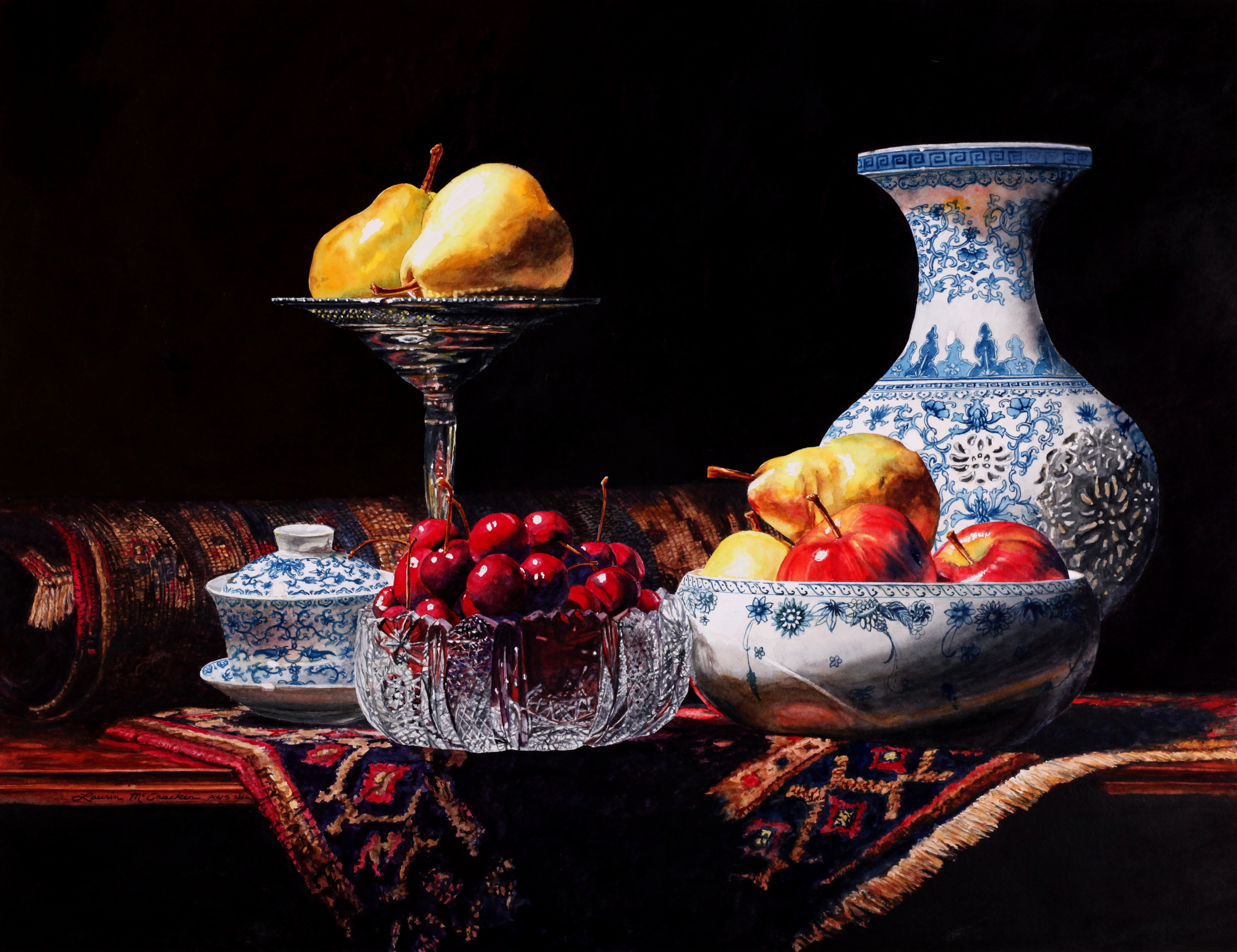 Fruit, Crystal & Chinese Procelain